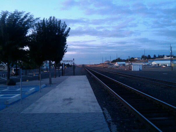 The Ephrata, WA Amtrak Station looking east.